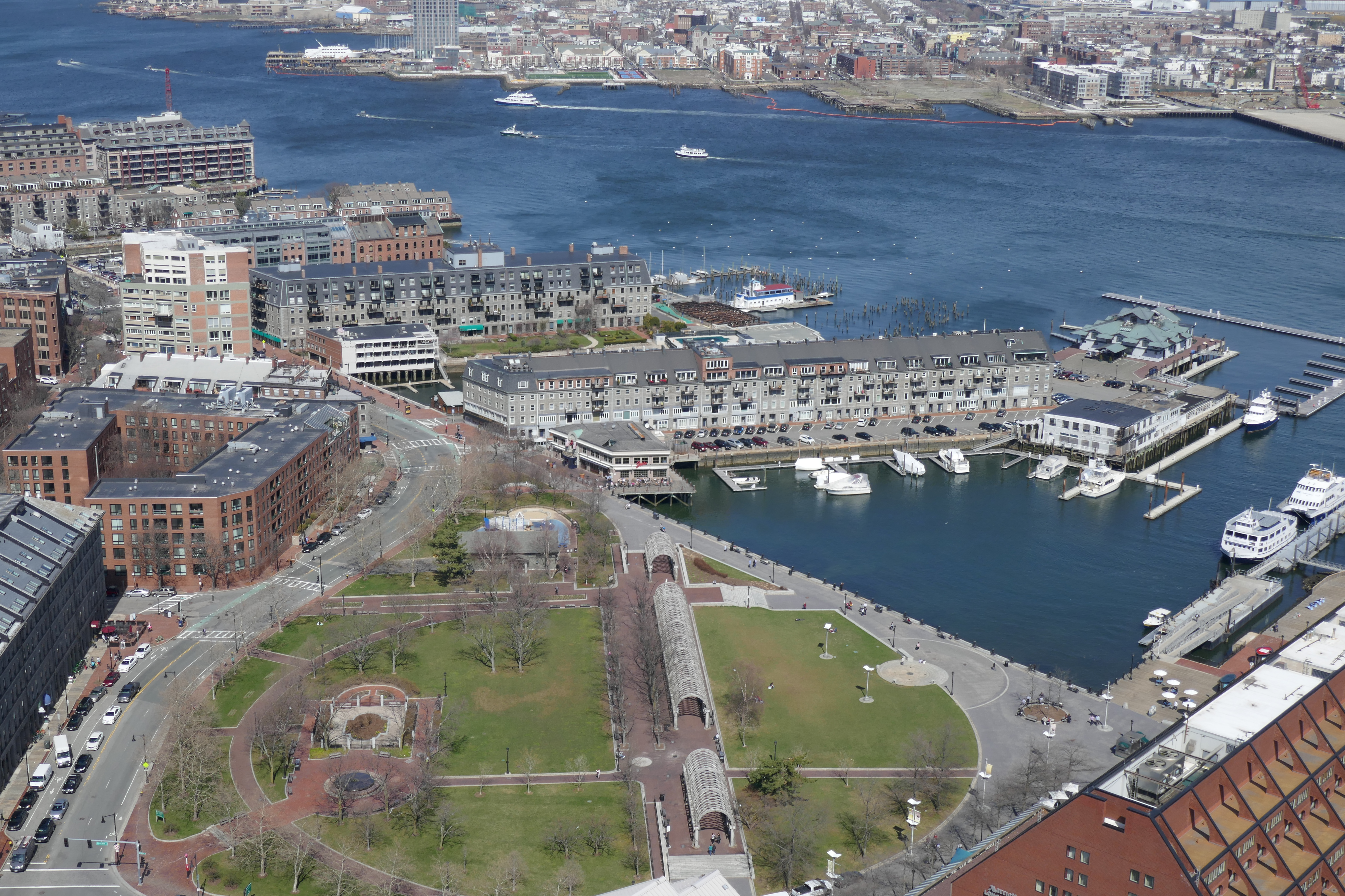 View of Christopher Columbus Park from Custom House Tower, Boston